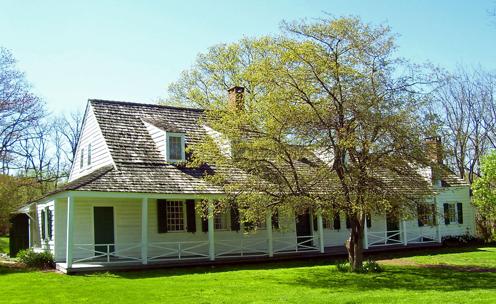 Photographed by Daniel Case 2007-05-03.